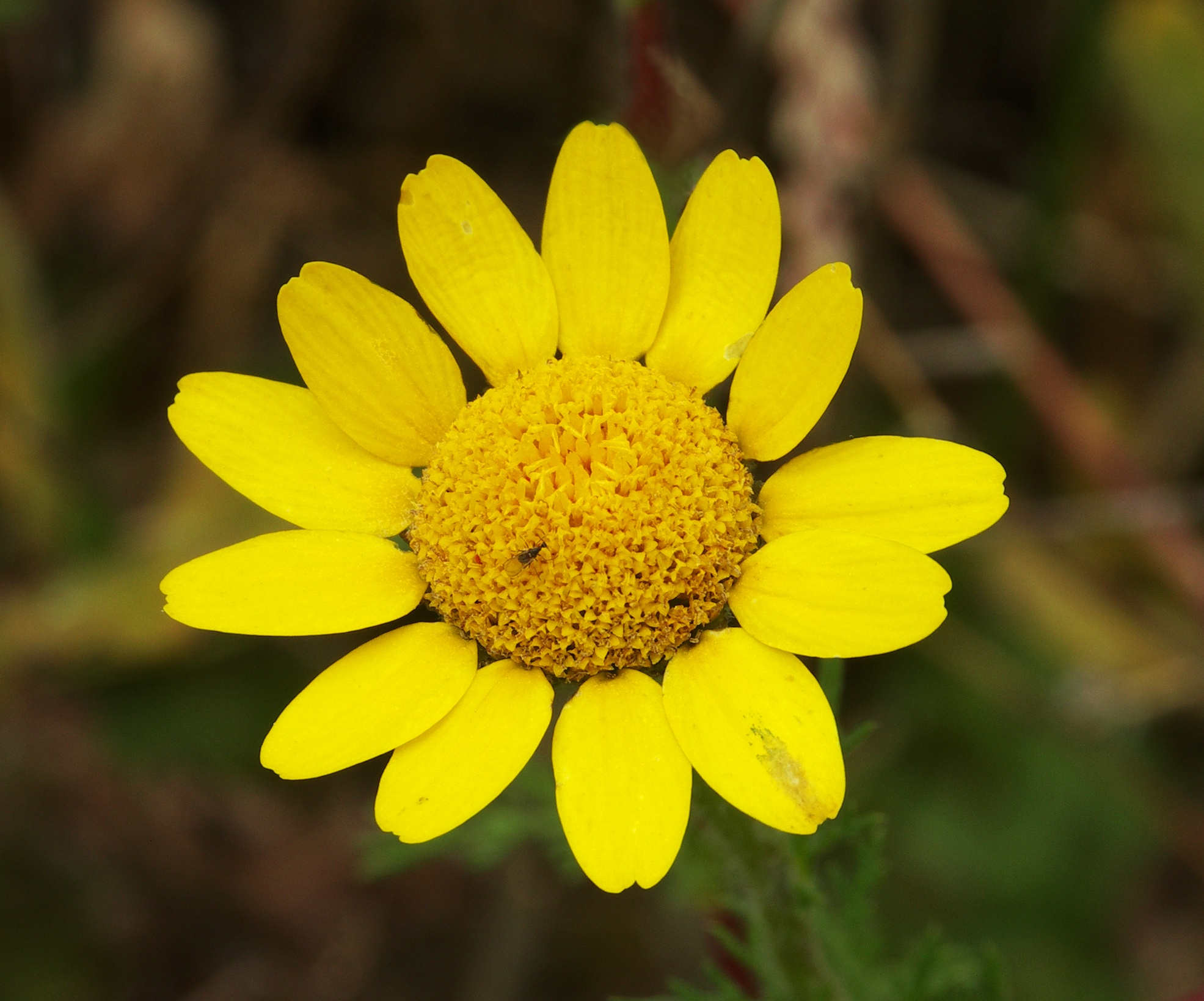 Yellow chamomile (Anthemis tinctoria)